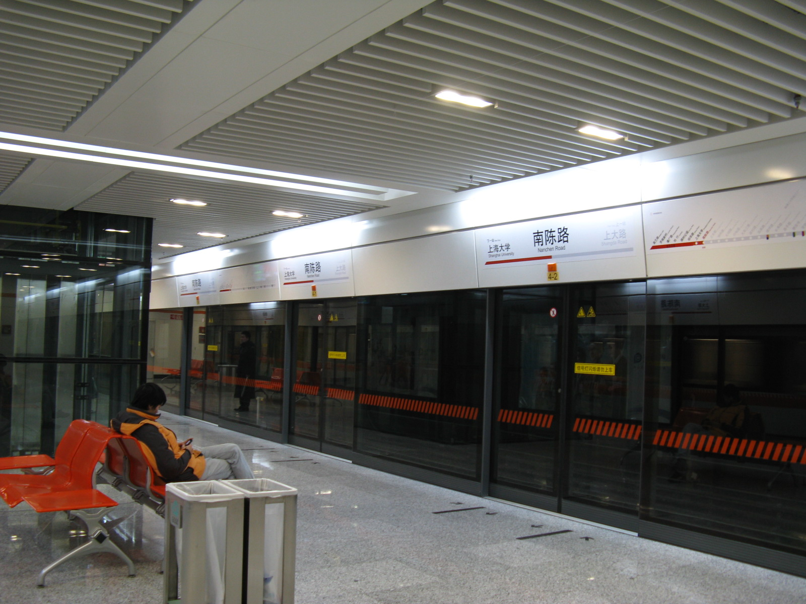 Nanchen Road Station Line7 Shanghai Metro